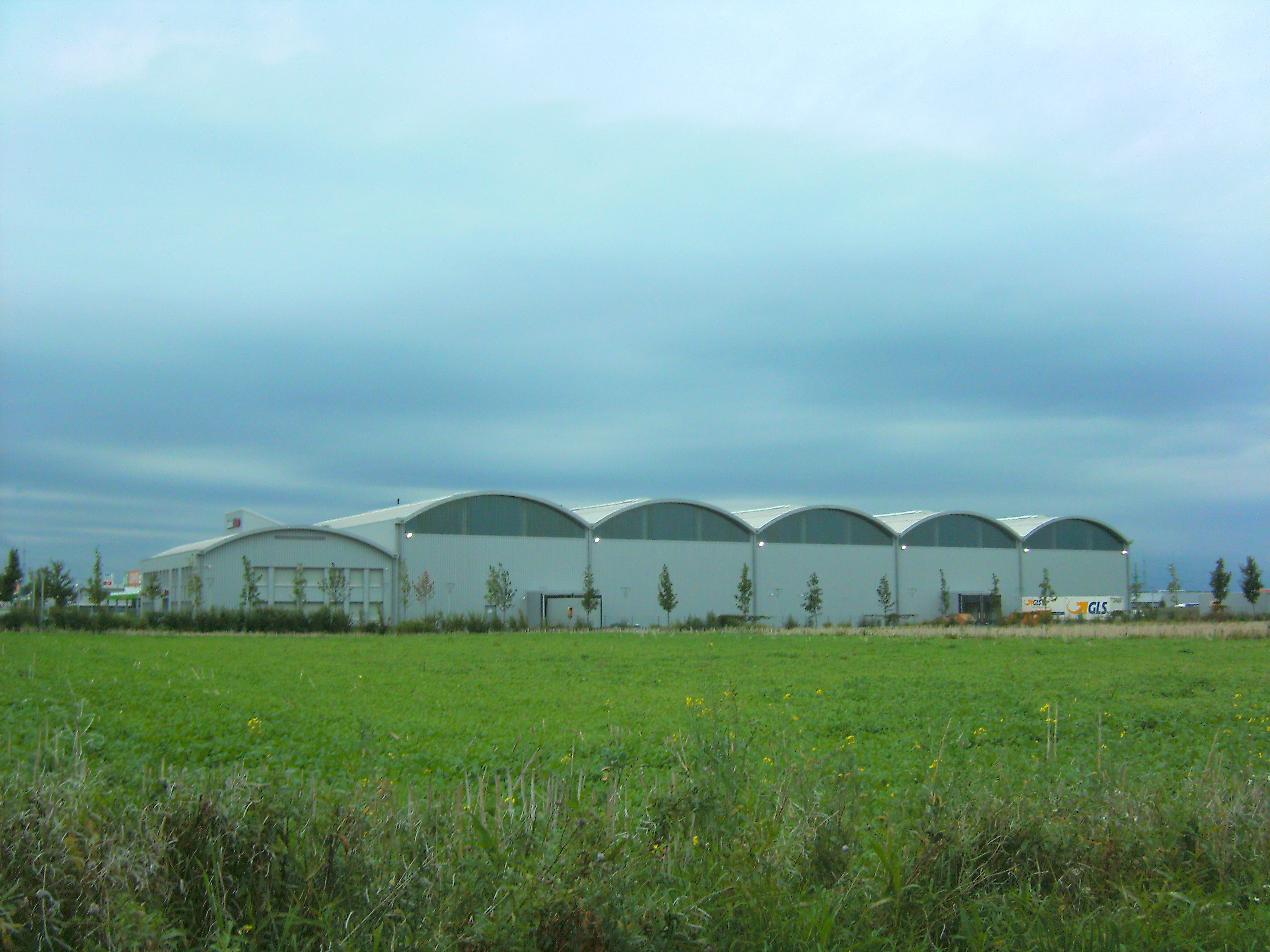 Game Stop